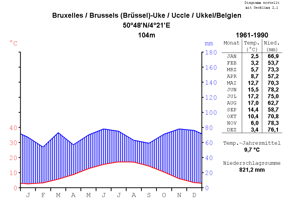 climate chart of Bruxelles-Uccle, Belgium, for the period of time from 1961 to 1990, in the format by Walter and Lieth, metric, °Celsius and millimeters, chart made with Geoklima 2.1, label in German